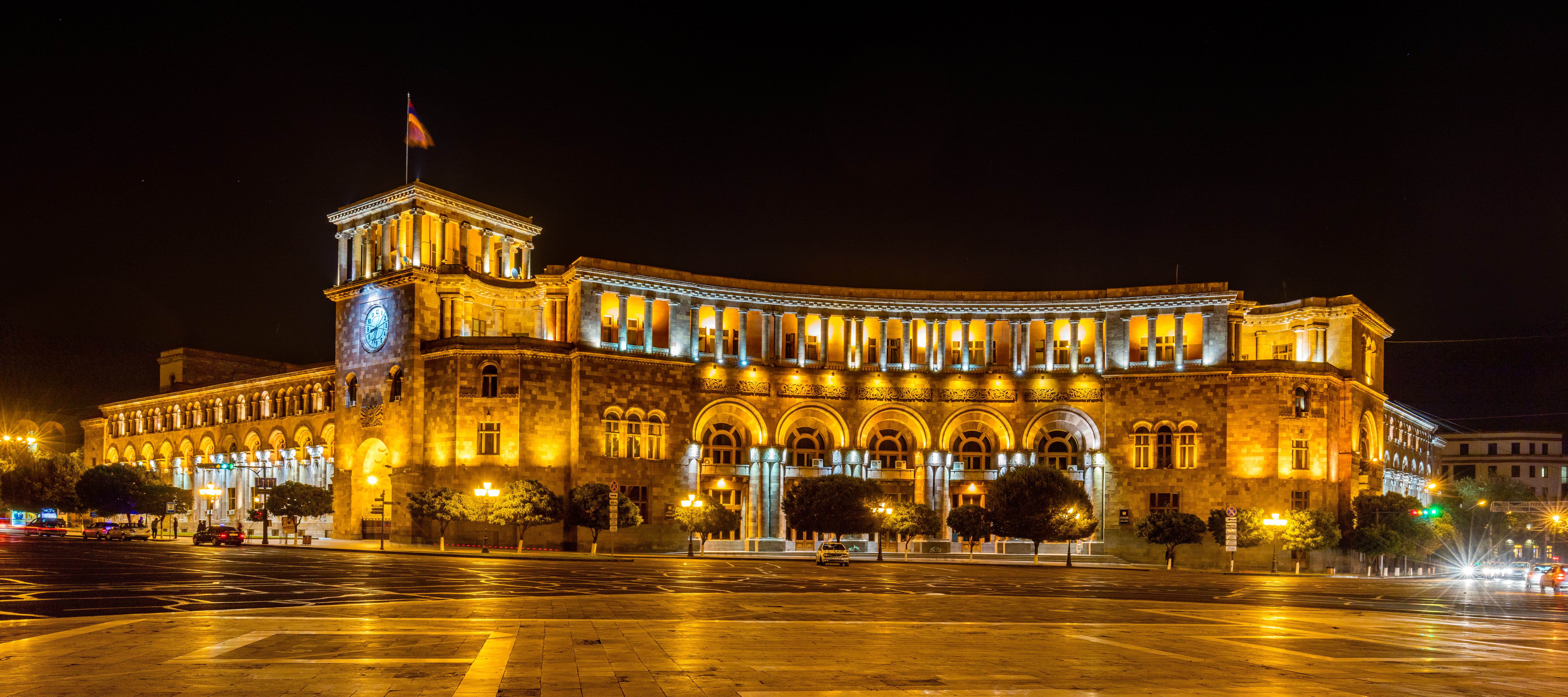 Republic Square, Yerevan, Armenia